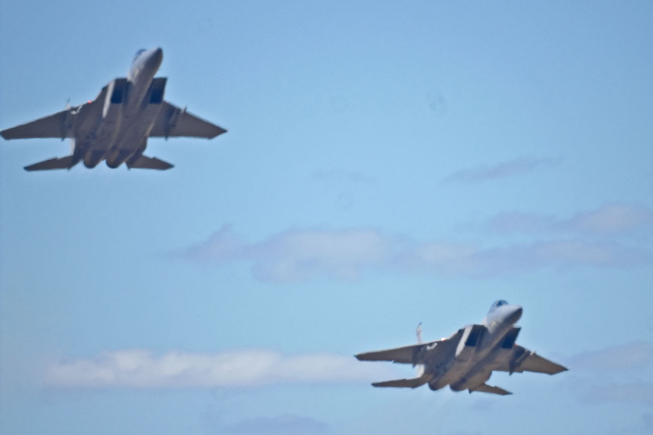 Two U.S. Air Force McDonnell Douglas F-15A Eagle fighters from the 123d Fighter Squadron, 142d Fighter Wing, Oregon Air National Guard based at Portland International Airport (USA), at the Oregon Air Show, at Hillsboro, Oregon, in July 2006.